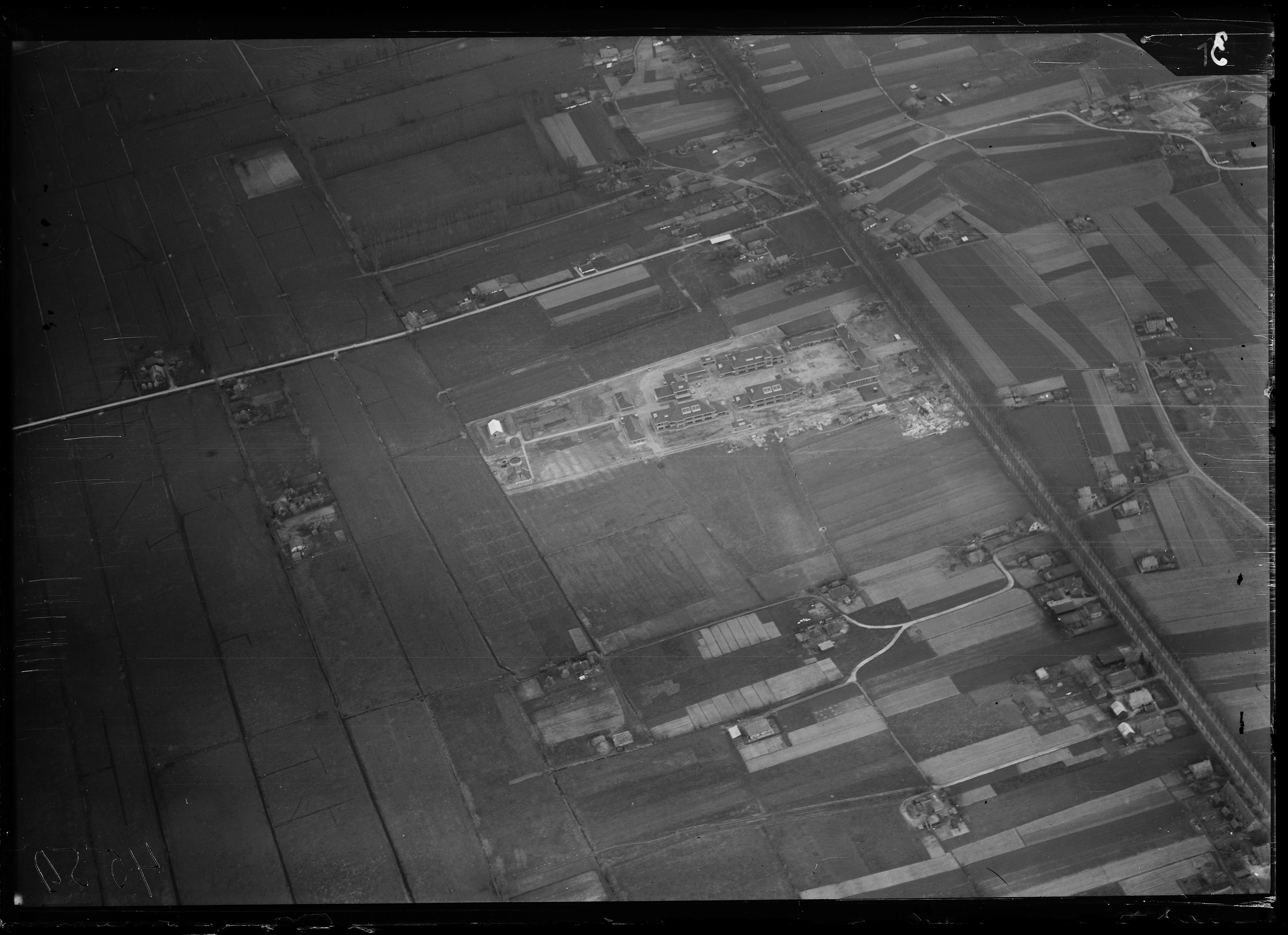 Aerial photograph of Willem de Zwijgerkazerne (army barracks), Wezep, Gelderland, The Netherlands